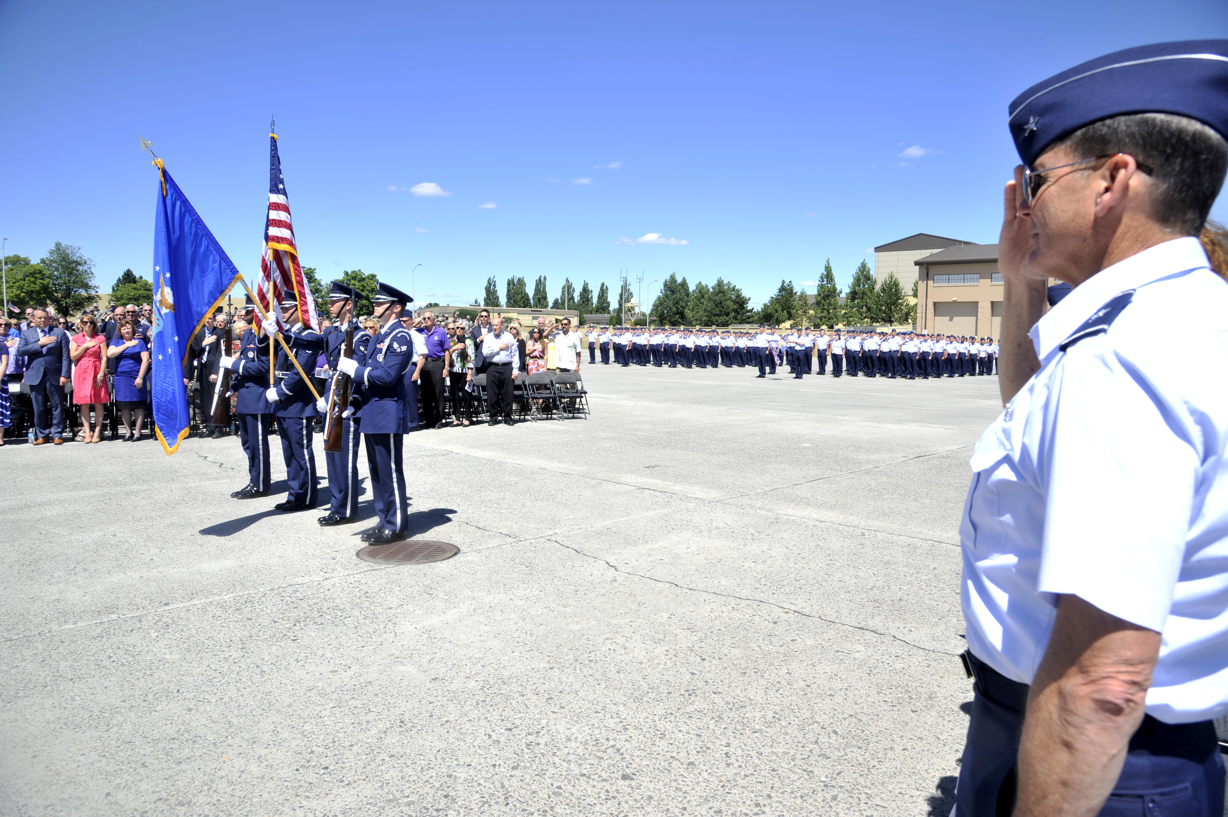 Photo of Brigadier General John S. Tuohy at Fairchild Air Force Base, WA